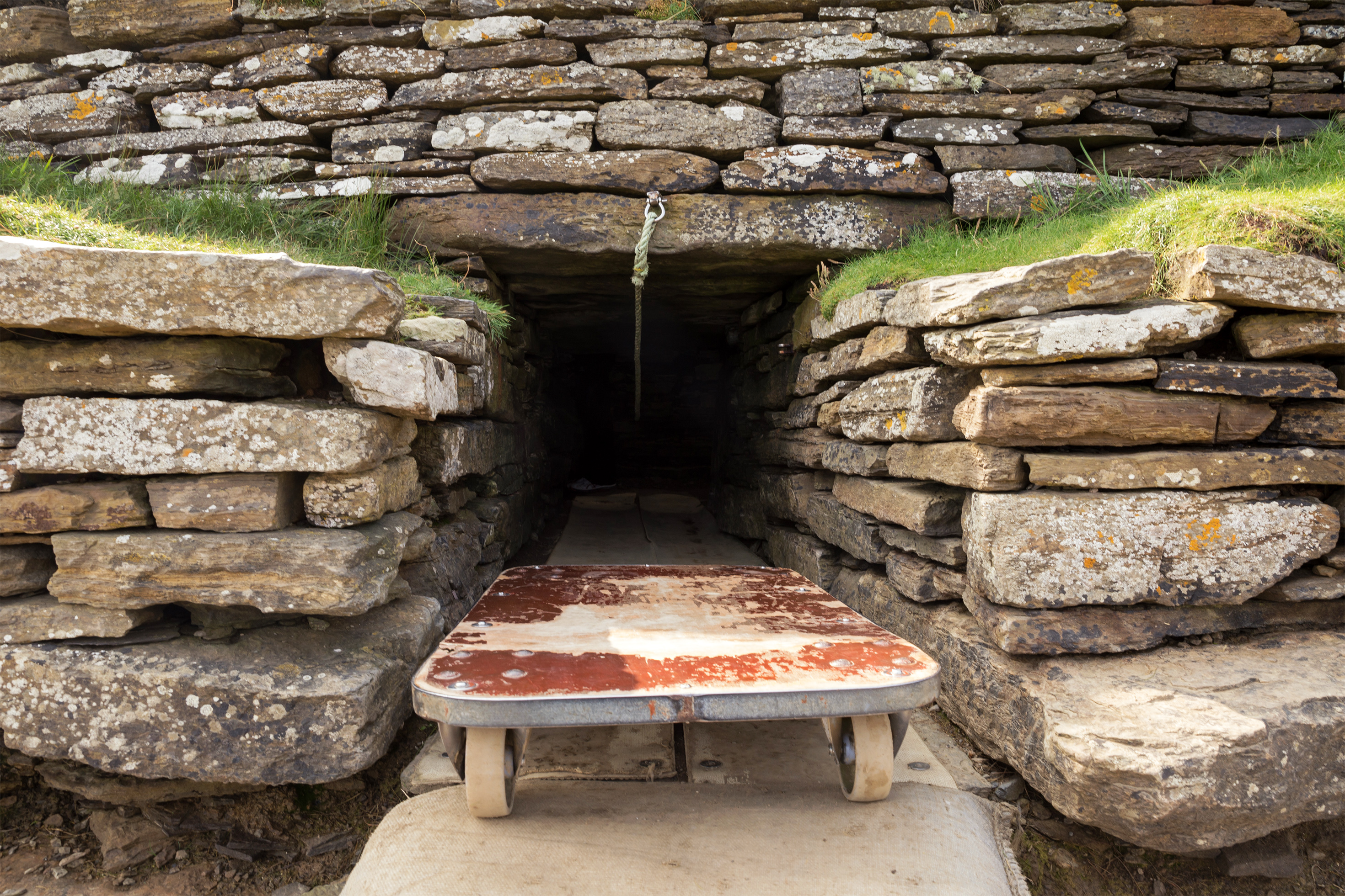 Isbister Cairn (Tomb of the Eagles), chambered tomb on South Ronaldsay, Orkney Islands, Scotland